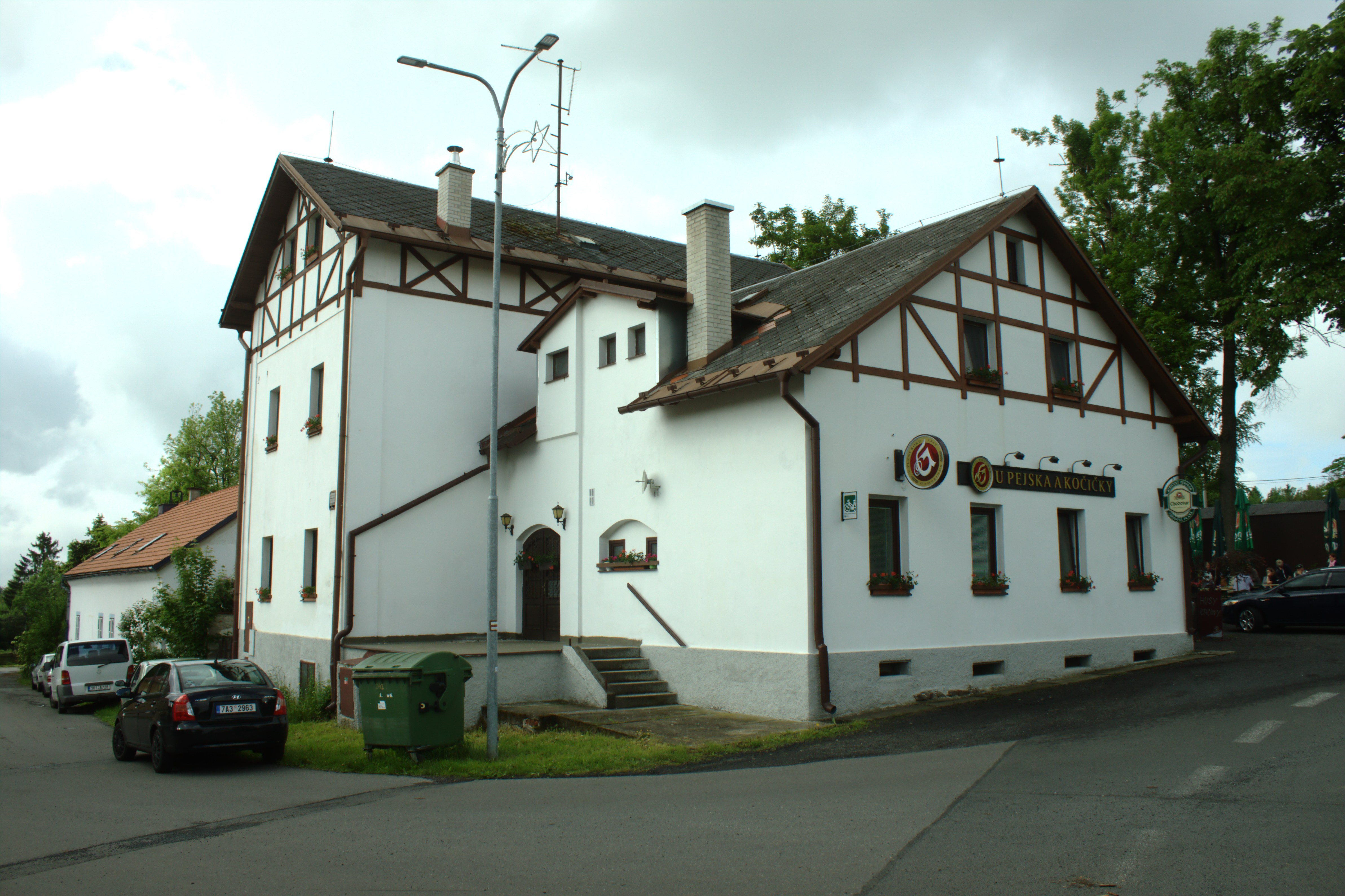 U Pejska a Kočičky Hotel in Závišín, Karlovy Vary Region, CZ